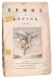 Ermis o Logios (in Greek: Ερμής ο Λόγιος), cover of 1818 issue